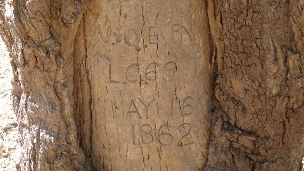 Landsborough's Blazed Tree, Camp 69 (2015) - closeup